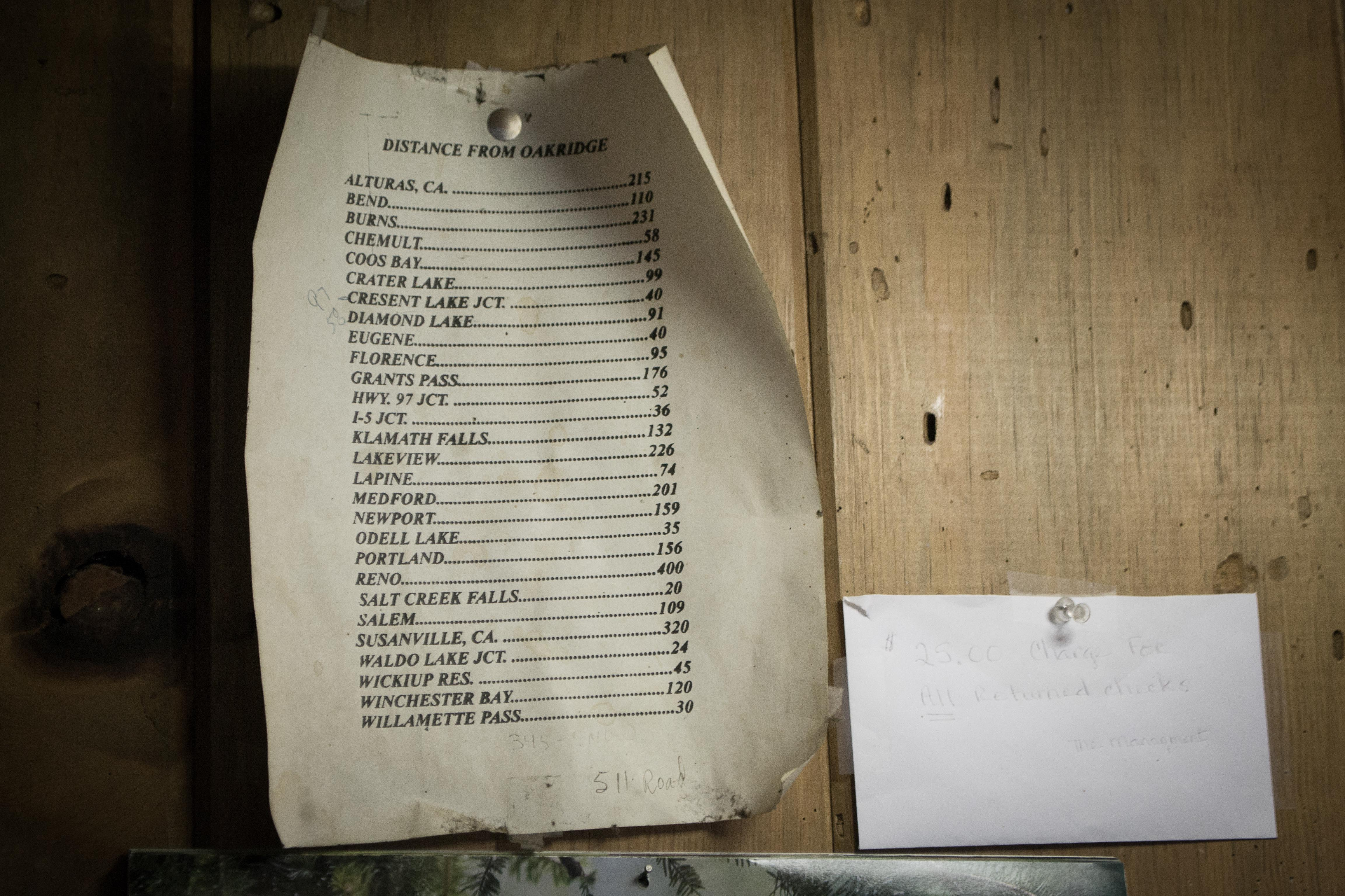 A list of distances from Oakridge, Oregon